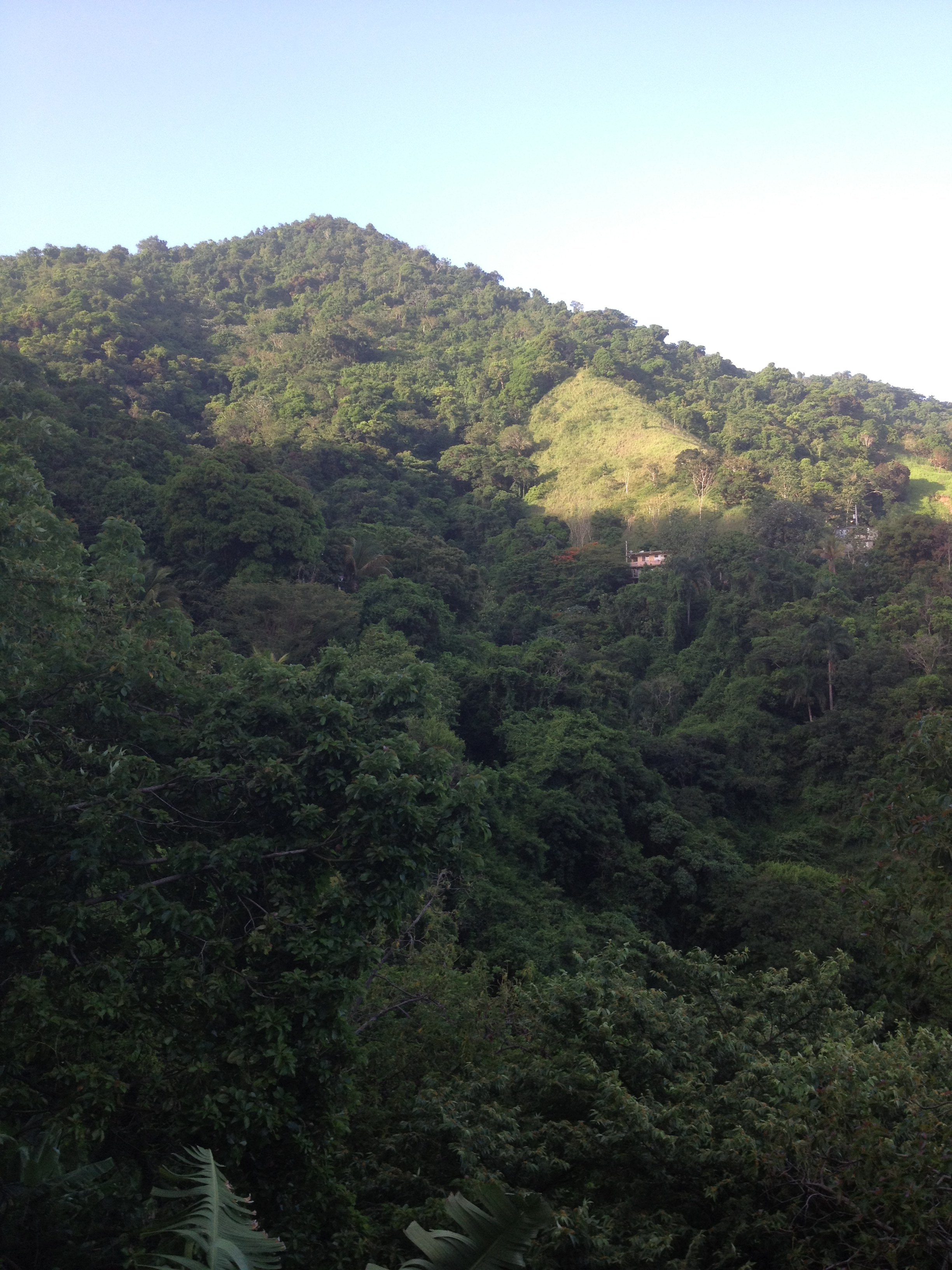 Ubicada en el Barrio Palmas Altas, Sierra de Cayey